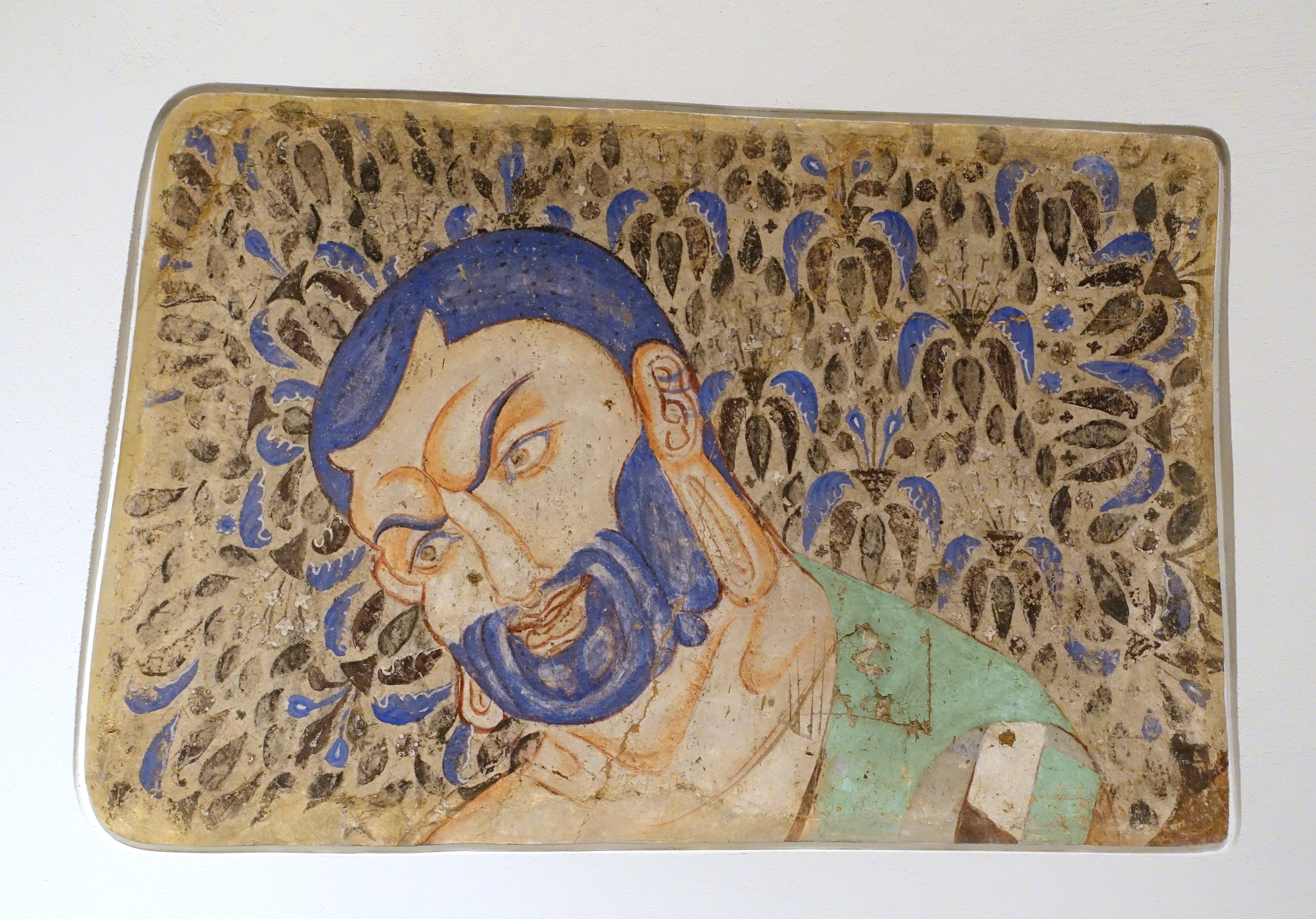 Exhibit in the Ethnological Museum, Berlin, Germany.